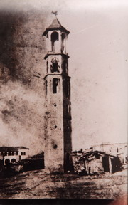 Clock tower in Grevena city, Grevena prefecture, Greece.